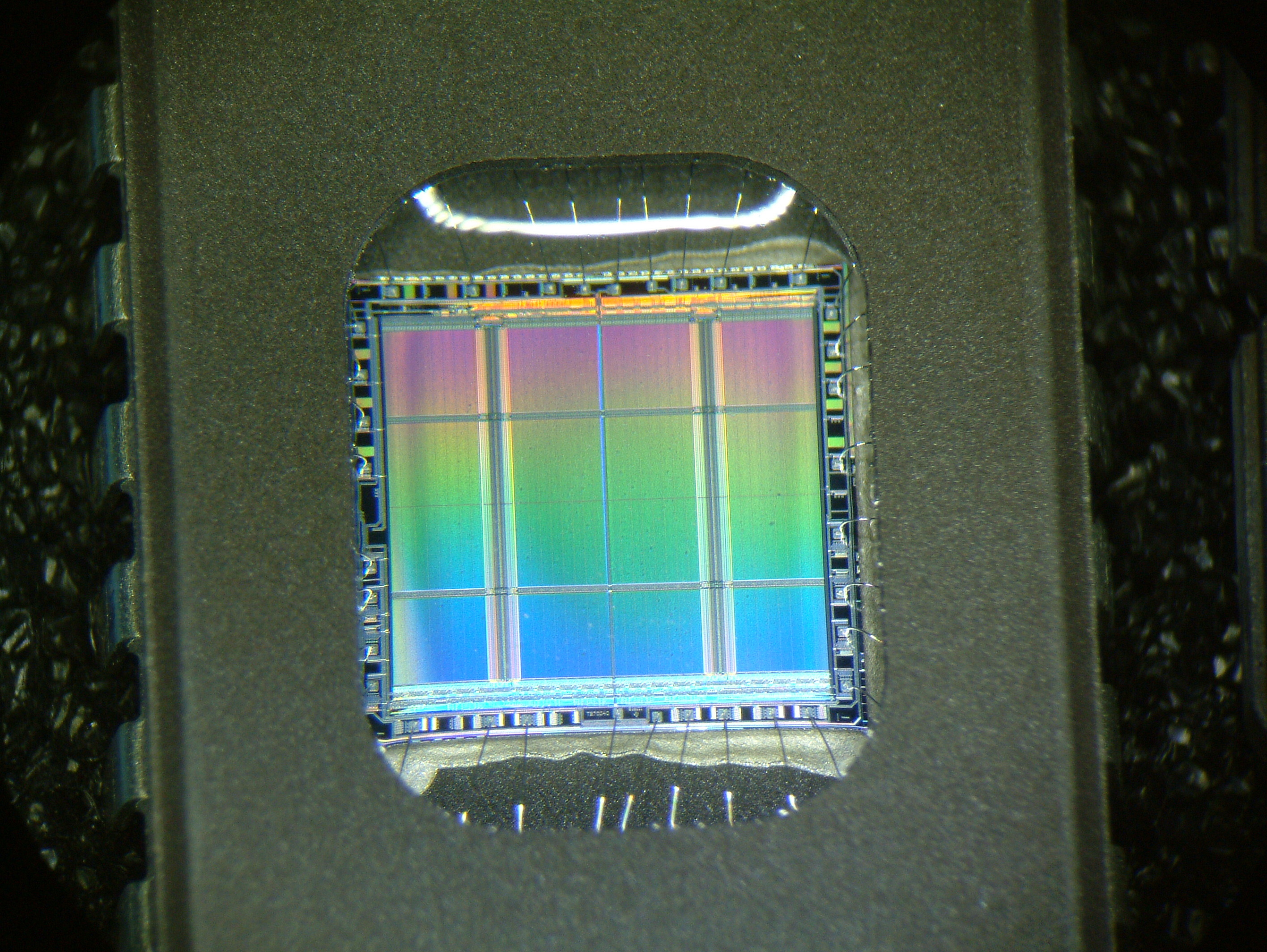 4Mbit EPROM Texas Instruments TMS27C040